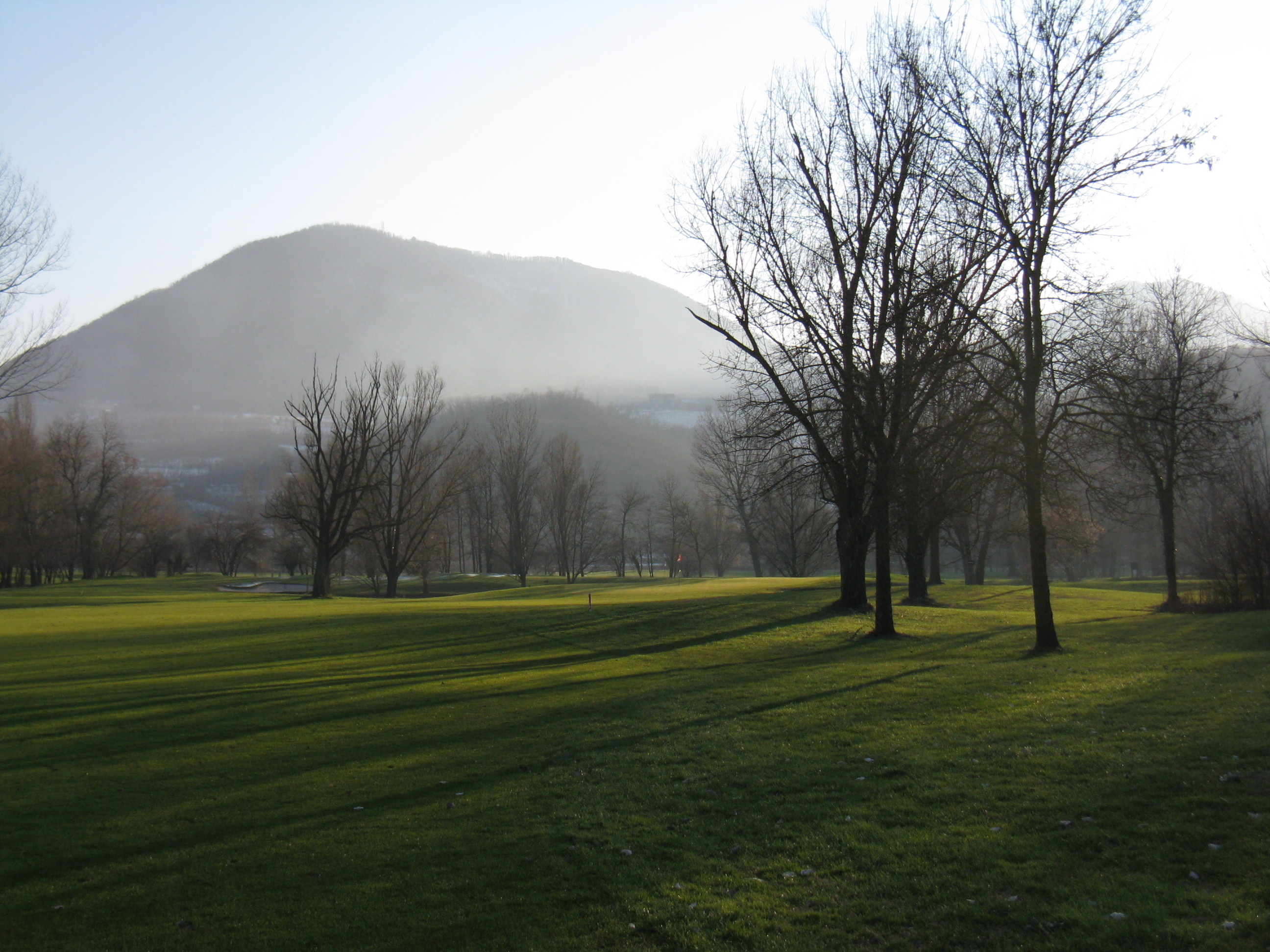 Green 17 of the Golf Club Frassanelle near Rovolon, Italy